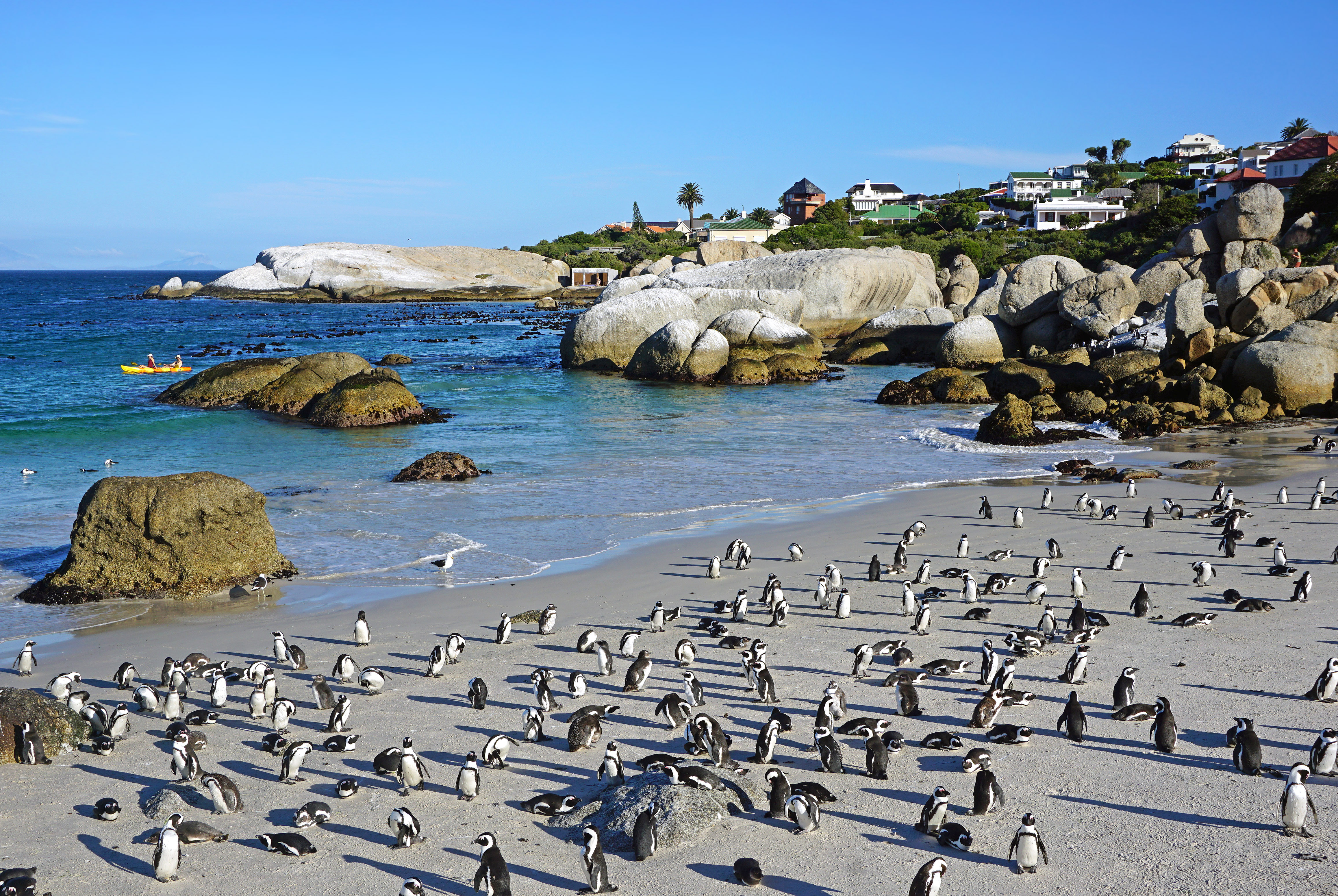 African penguins (Spheniscus demersus), Boulders Beach, Simon's Town, South Africa.